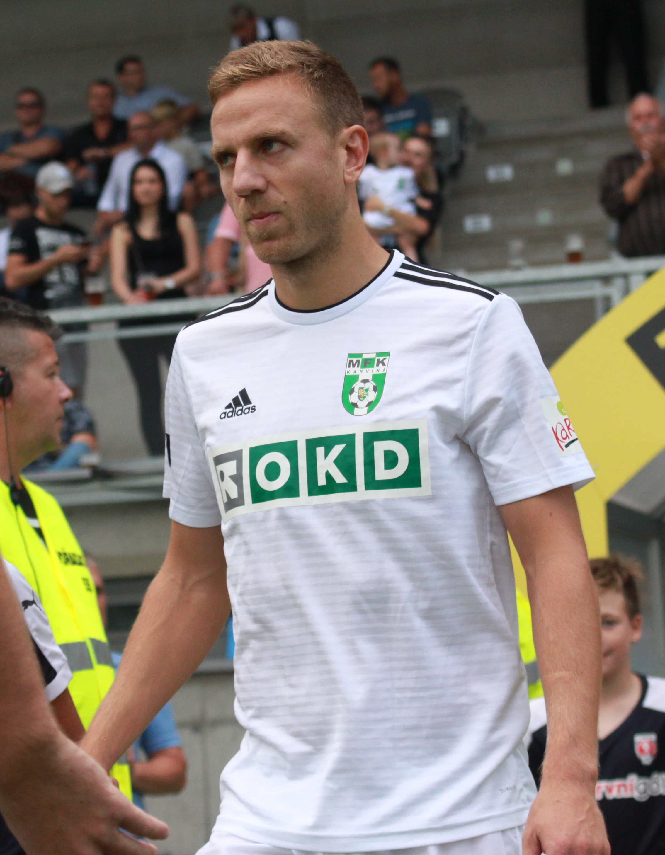 Aleš Mertelj during association football match MFK Karviná-1. FC Slovácko (2:1) on 2nd Semtemper 2018